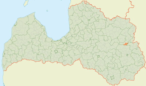 Location of Krišjāņi Parish in Latvia